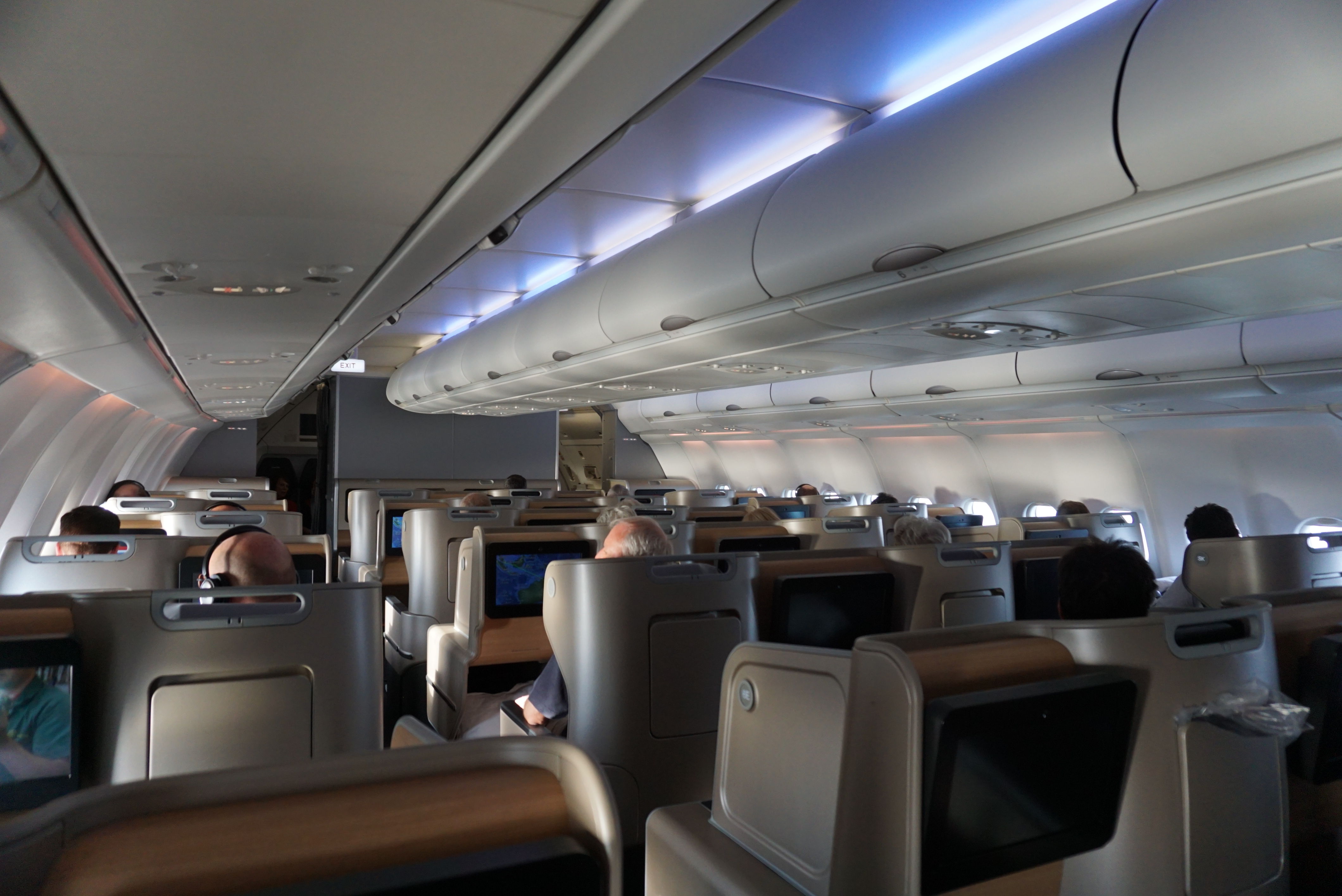 Qantas' A330 Business Class